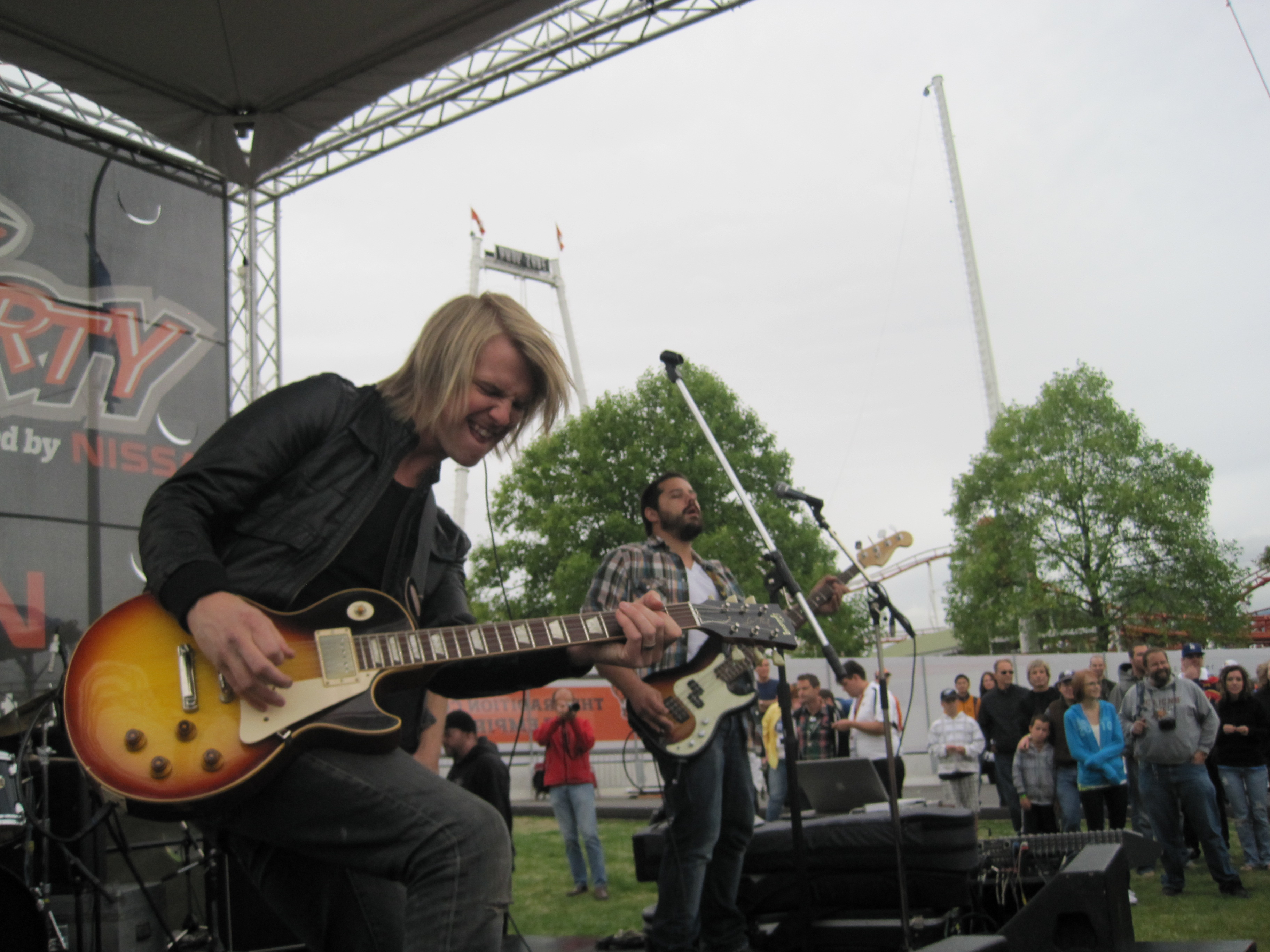 Jon Neufeld is playing the electric guitar in the performance of a song by their band, Starfield.